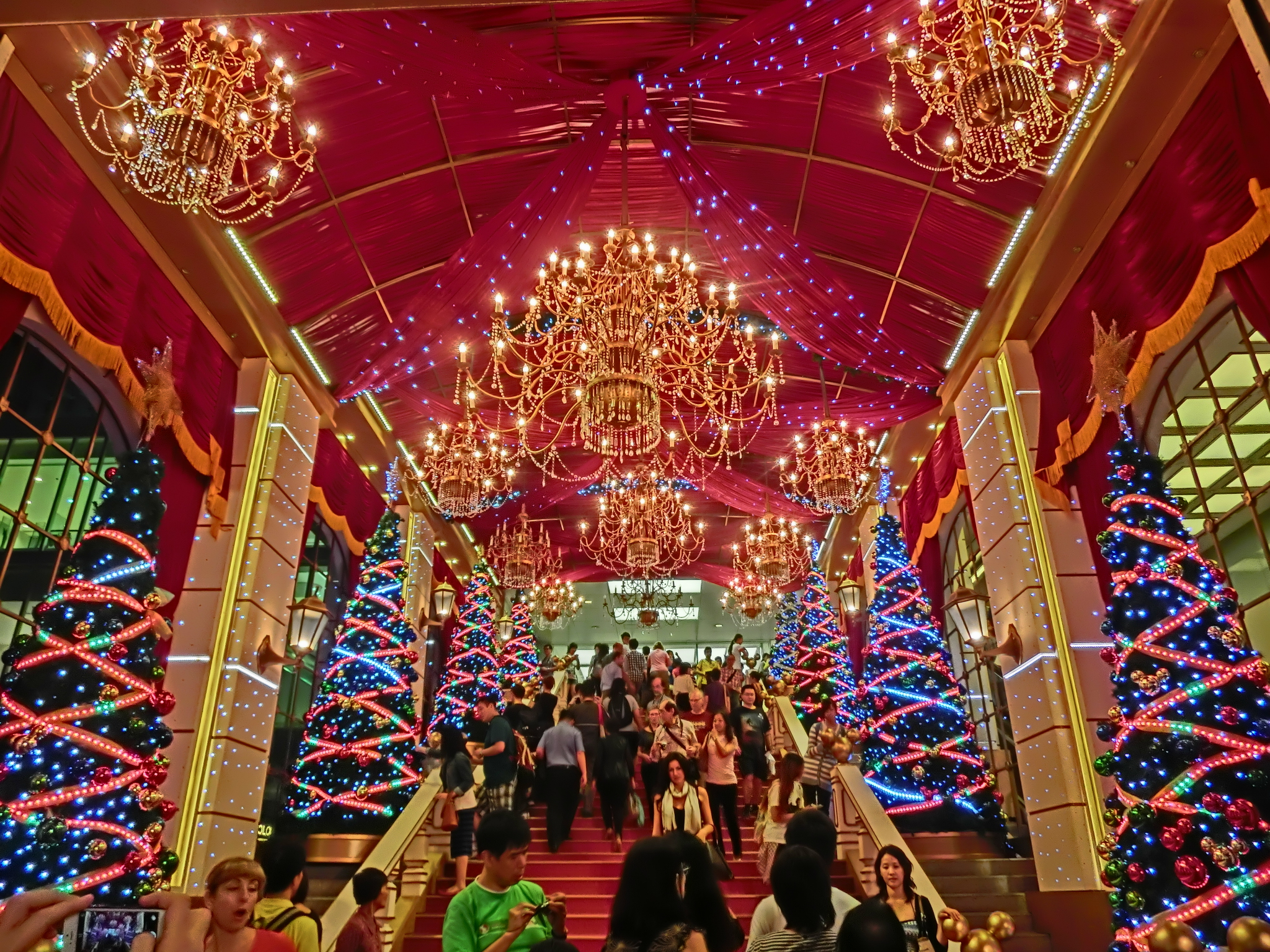 海運大廈, Ocean Terminal, Hong Kong, in Nov-2013